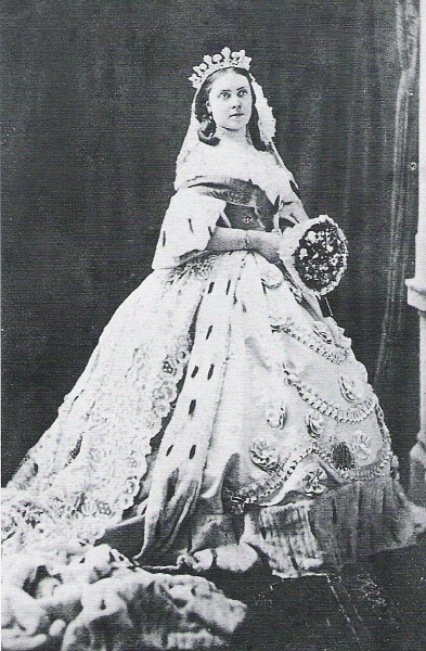 Victoria of the United Kingdom (1840–1901), Princess Royal, by marriage Empress of Germany and Queen of Prussia in coronation robes.